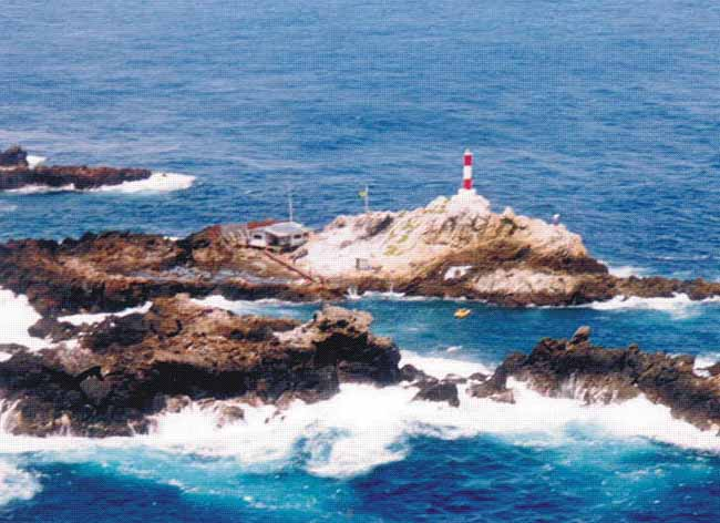 Saint Peter and Paul Rocks, Scientific Station